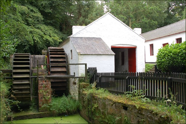 The Ulster Folk Museum (12) See 515395. The waterwheel which powered the Coalisland spade mill 440133.